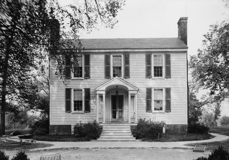 View of the exterior, Main House, Keswick Plantation, vicinity of State Route 711, Huguenot vicinity, Powhatan County, Virginia. Historic American Buildings Survey, Library of Congress, Washington, D. C.